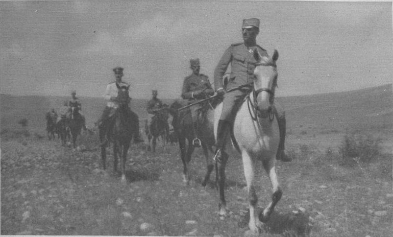 extrait du magasine.